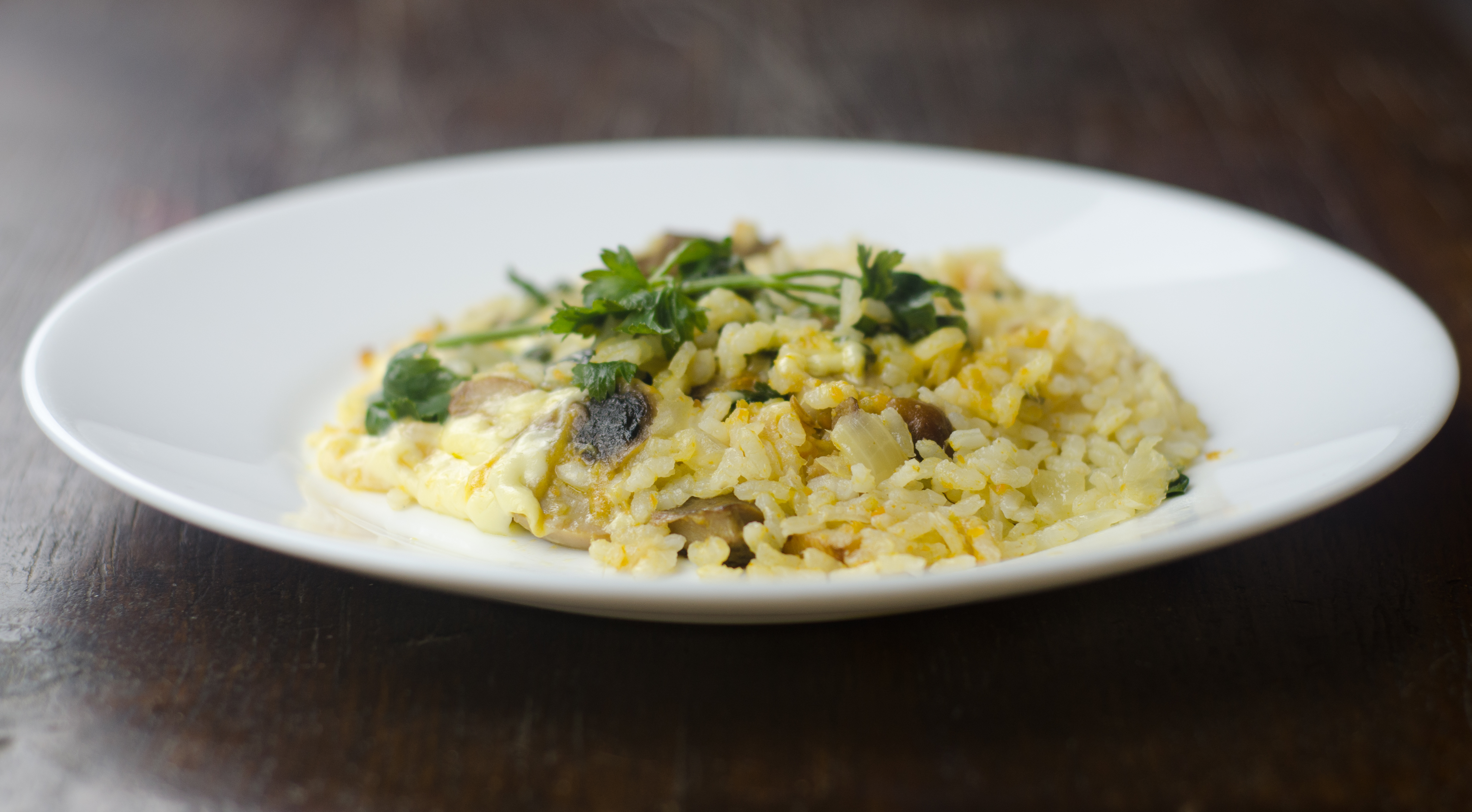 Risotto dish.